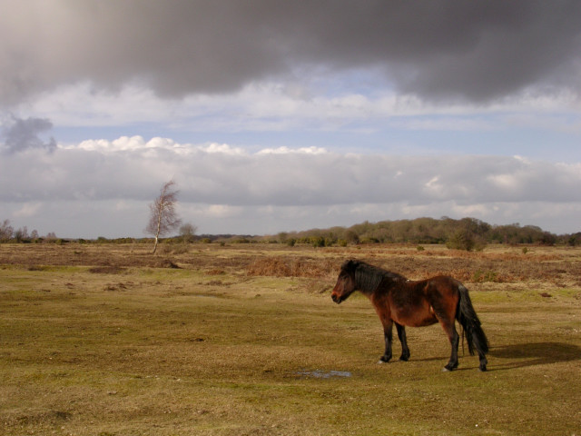 Ocknell Plain, New Forest. This well-grazed lawn on Ocknell Plain was the site of the western end of the Stoney Cross airfield which was active during the Second World War. The runways were reseeded and the concrete utility roads were taken up, and nowadays the area is popular with animals and tourists alike. In the distance the canopy of the South Bentley Inclosure can be seen - its trees were planted as acorns in 1700 and is believed to be the oldest surviving oak plantation in western Europe.